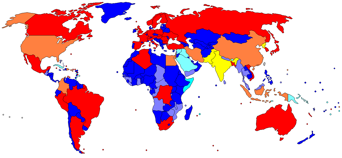 Annex Two countries that are parties to, signatories to, or are outside the CTBT are coloured red, orange and yellow respectively. Other states that are parties to, signatories to, or are outside the CTBT are coloured blue, azure and cyan respectively.